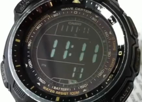 An example of 11-11-11 11:11:11 on digital watch, see also as a clip